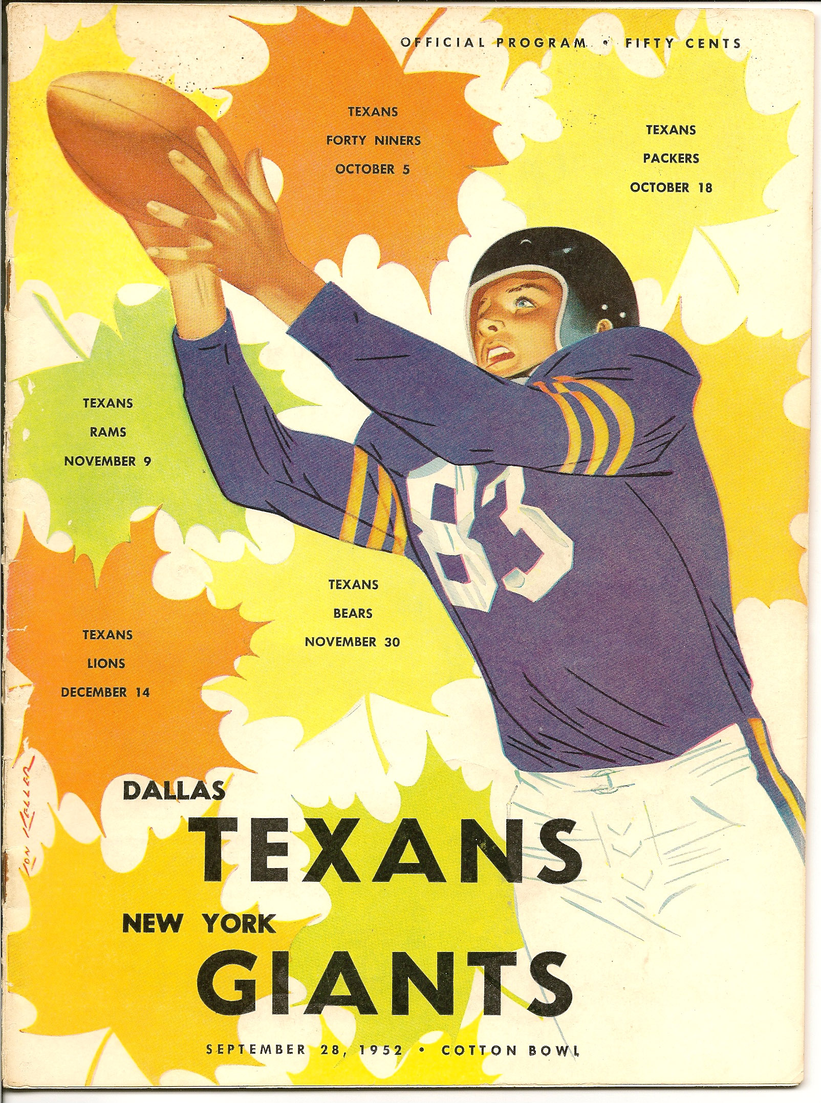 No copyright mentioned in the programme. Team is long defunct. DOn't expect any copyright issues.